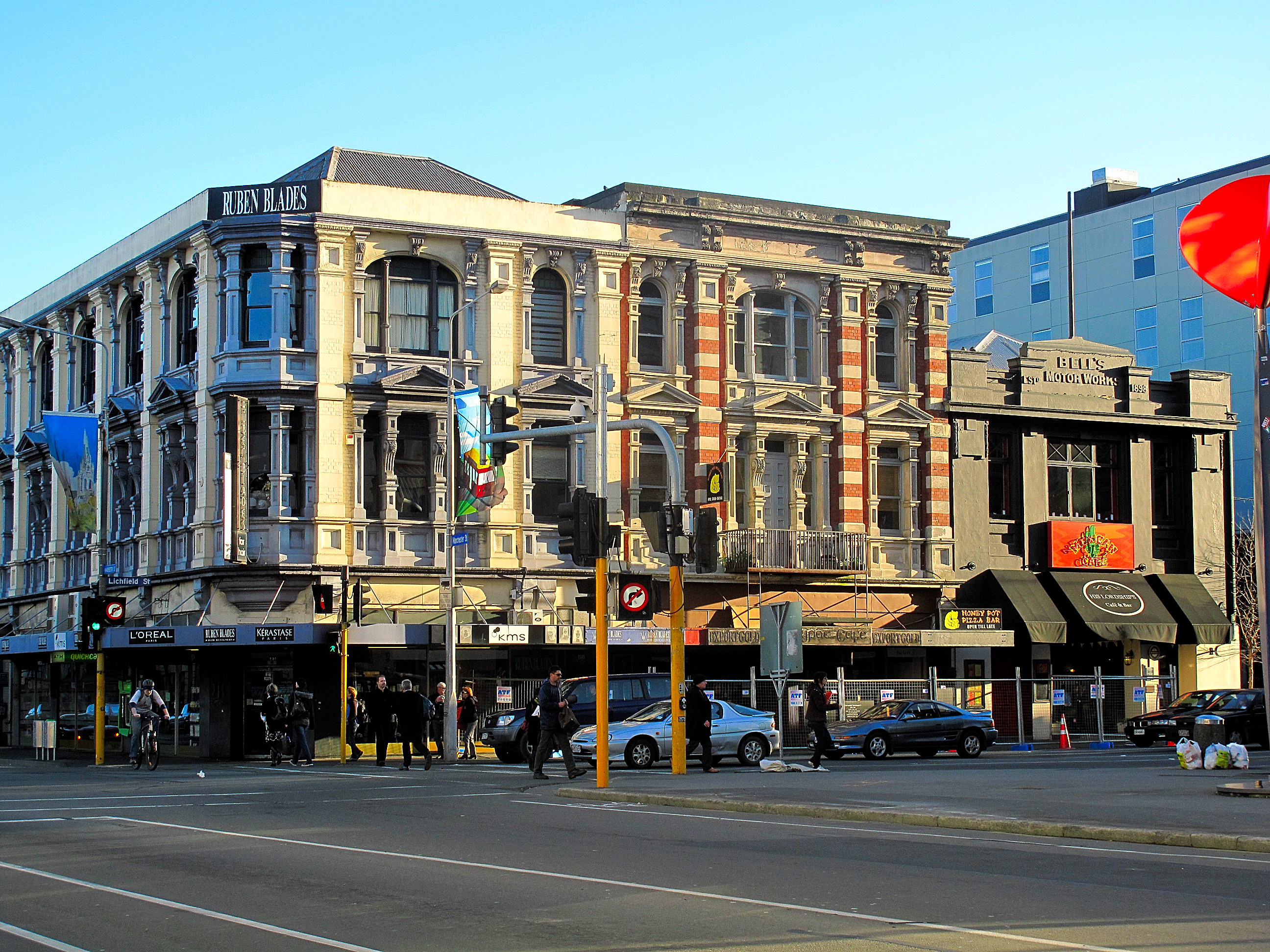 Corner of Lichfield Street and Manchester Street in Christchurch (Wed 15-9-2010).